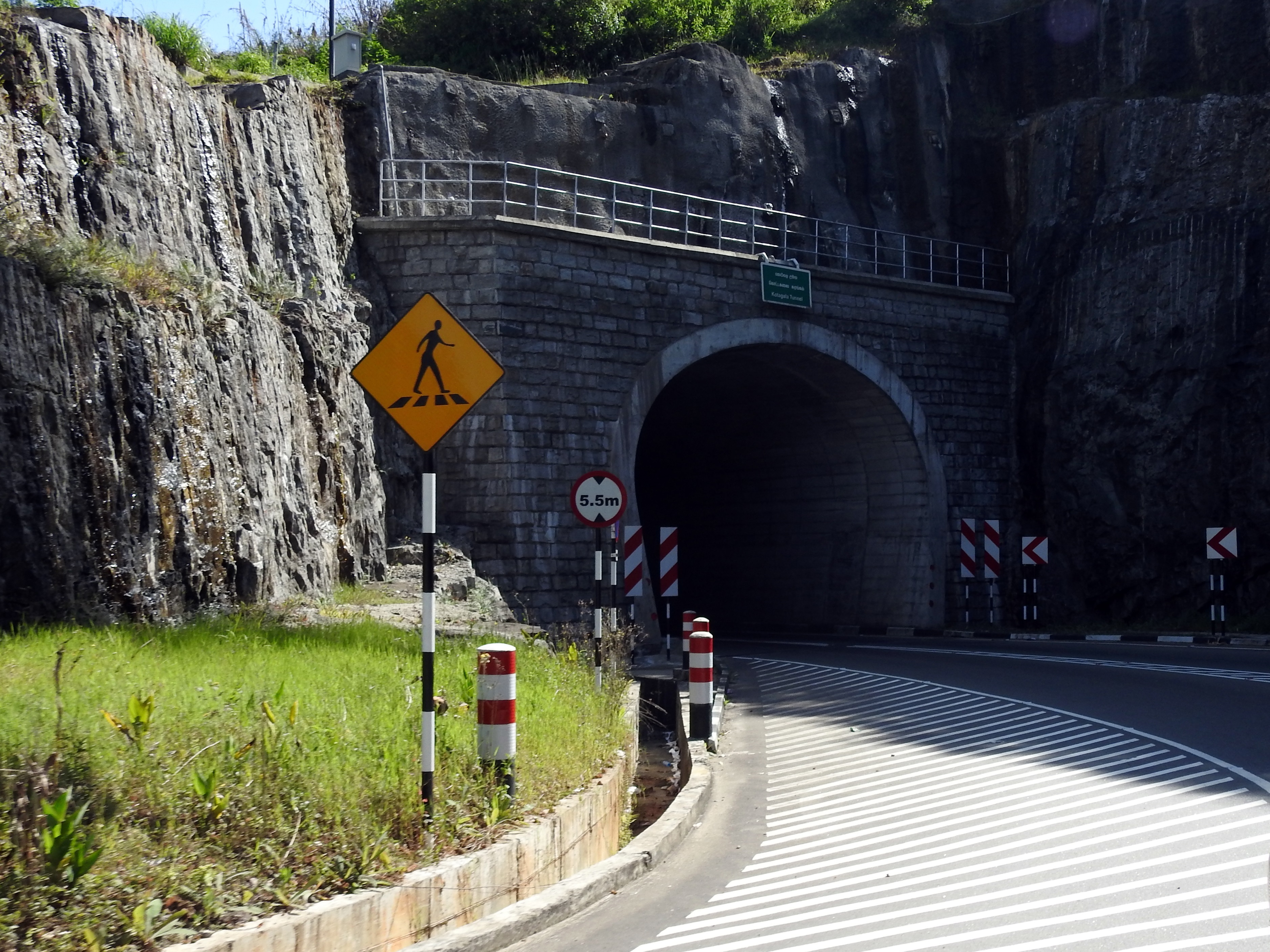 This photo was taken as part of a photo project by Wikimedia Community User Group Sri Lanka, covering current/future hydroelectric dams (and its surroundings) in the Central and Sabaragamuwa provinces of Sri Lanka. User:Rehman handled the photography, while User:Azeez and User:PasinduBR handled the logistics/planning of routes. Description of photo: Kotagala Tunnel. Further information on the subject(s) of the photograph may be found in the category/ies of this file.